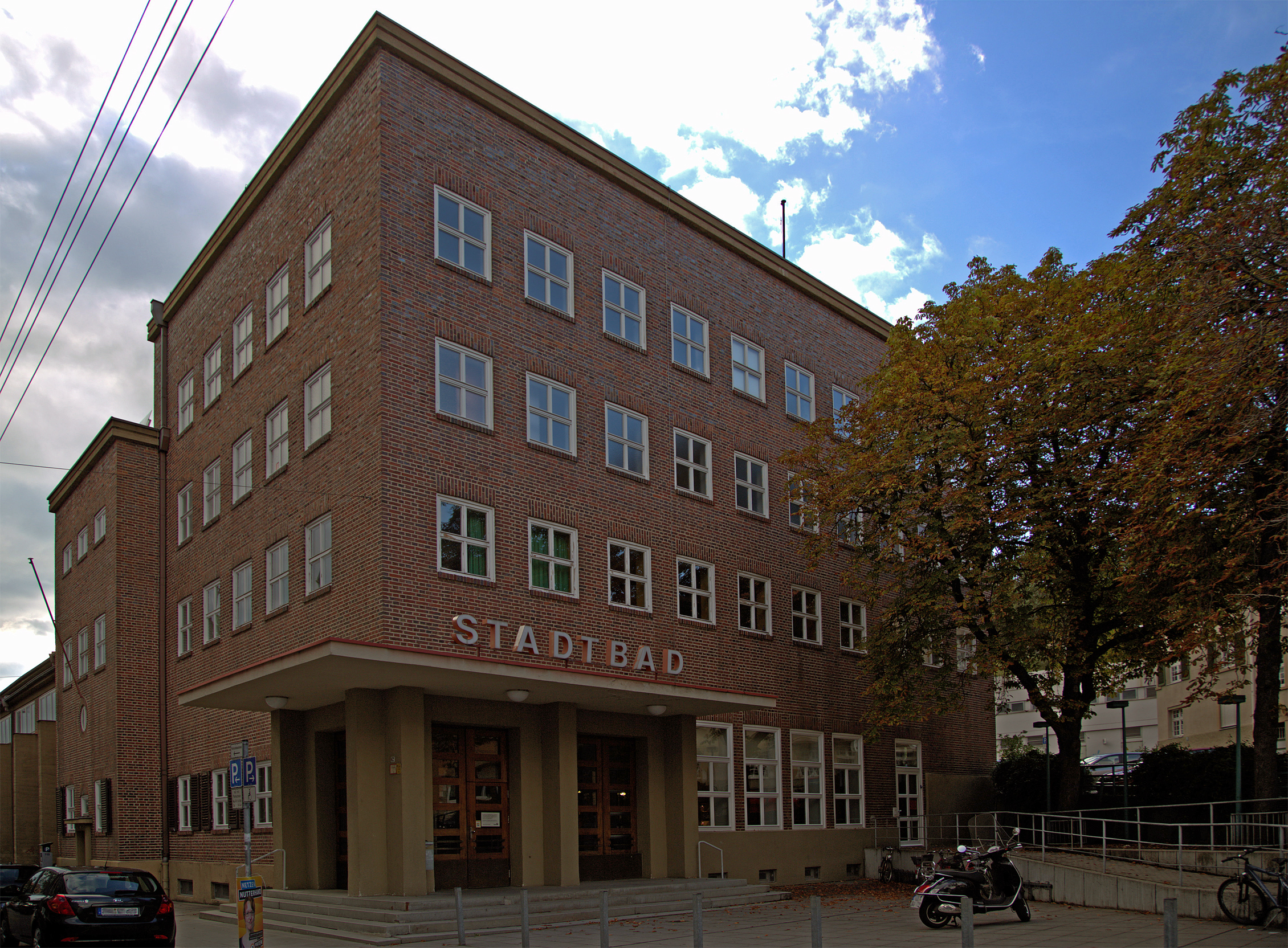 This is the front of the Hallenbad Heslach in the town of Stuttgart